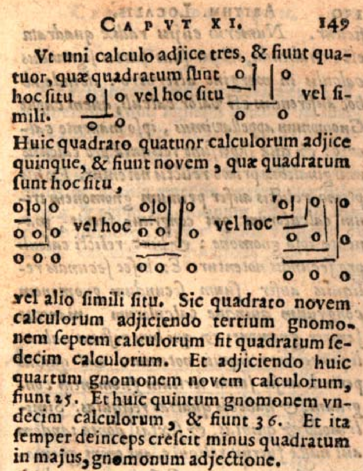 Napier's explaination of how to form the square in each subsequent step from Rabdology page 149